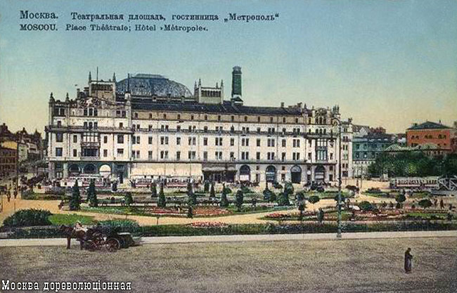 Moscou, Place Théâtrale, Hôtel Métropolepre-revolutionaty russian postcard of Teatralnaya Square and hotel "Metropol"